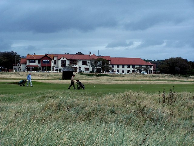 Royal Troon Golf Club Original description: Royal Troon Golf Course Looking north west towards Crosbie Road